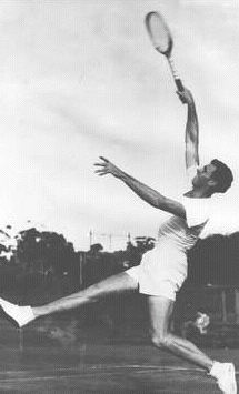 Australian tennis player Ken McGregor. pre-1955 photo, so public domain